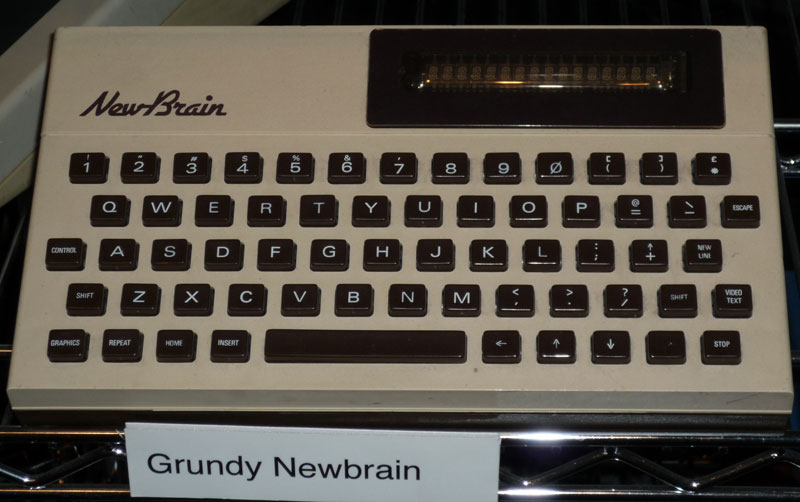 Grundy Newbrain microcomputer, version AD